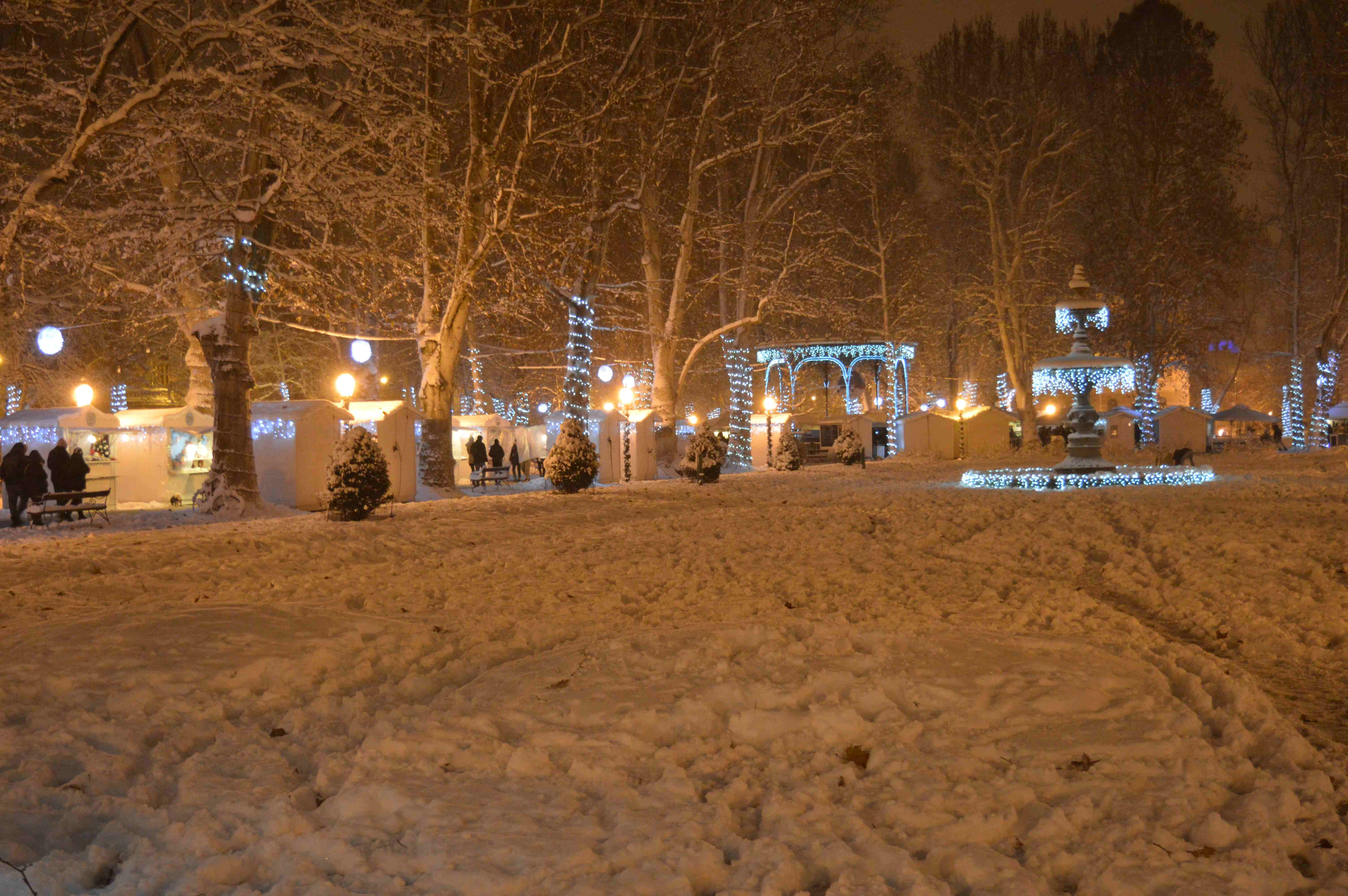 Christmas lights in Zagreb